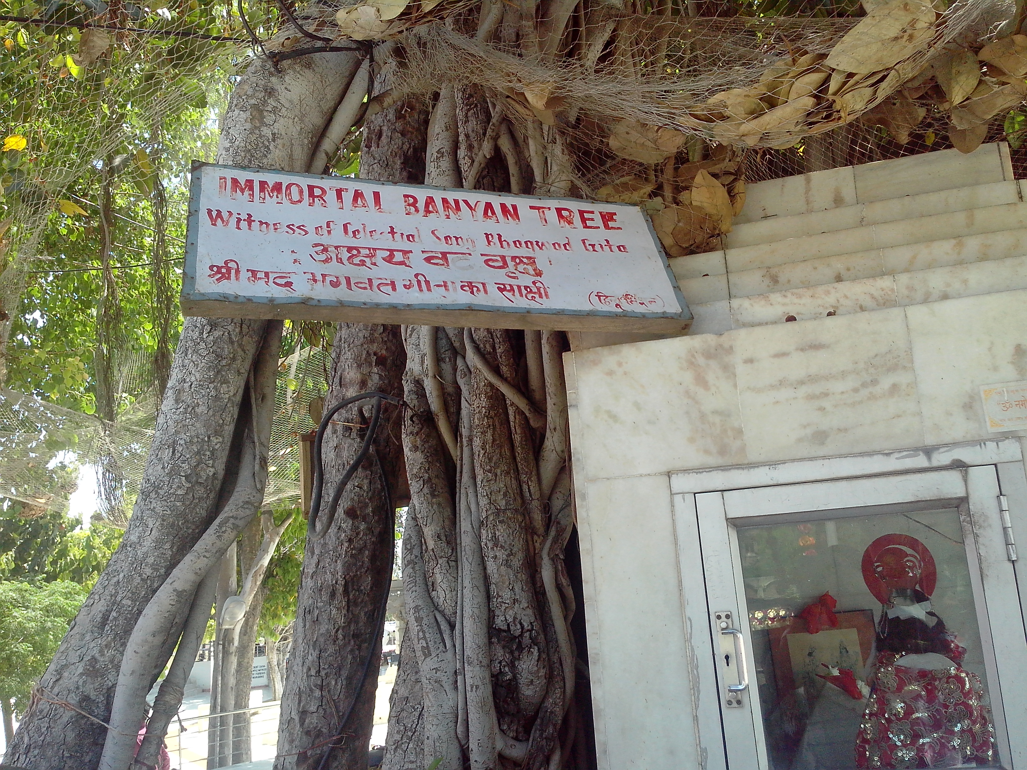 Akshay Vat, The Banyan Tree Witness to The Gita, Kurukshetra, India